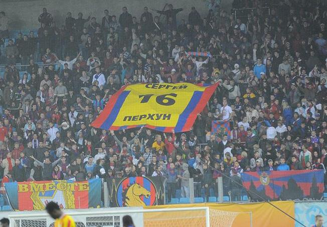 Banner in honor of Serhiy Perkhun